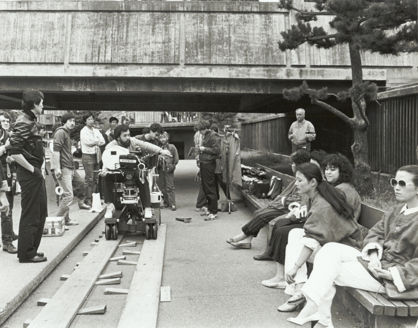 Director of Photography Mike Chin (center behind camera) on location in Chinatown's Portsmouth Square in San Francisco, California filming a low budget movie in 1983. Photo by Nancy Wong.